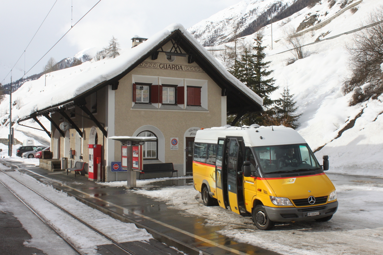 Guarda train station.